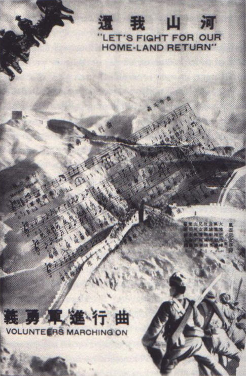 The earliest form of the 1935 "Volunteers Marching On"/"March of the Volunteers"